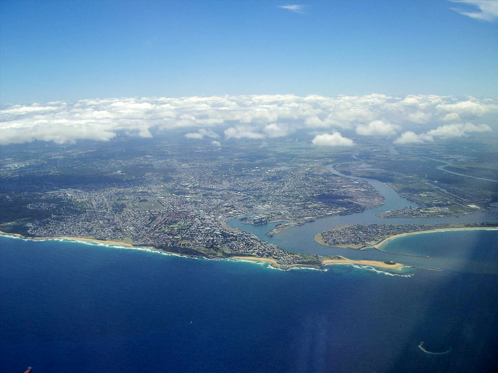 Aerial photograph taken on a flight from Newcastle to Melbourne. Taken by Tim Starling. Pentax Optio S30.